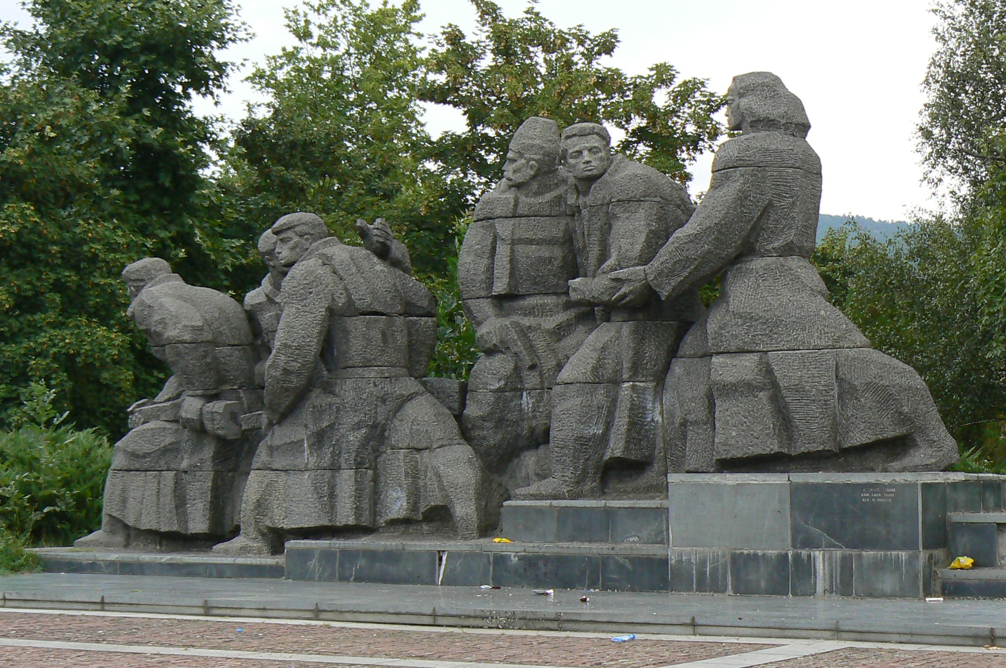 The partisans monument in village Trudovets, Bulgaria